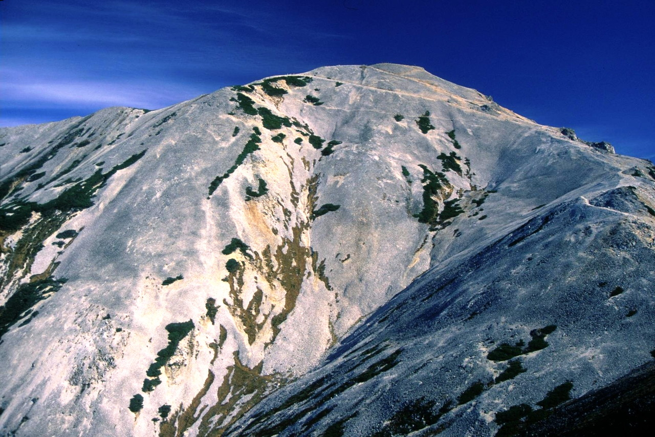 Shiroumayarigatake_from_South_1999-10-10